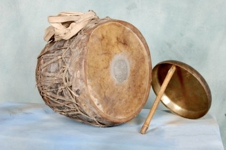 Dhodia